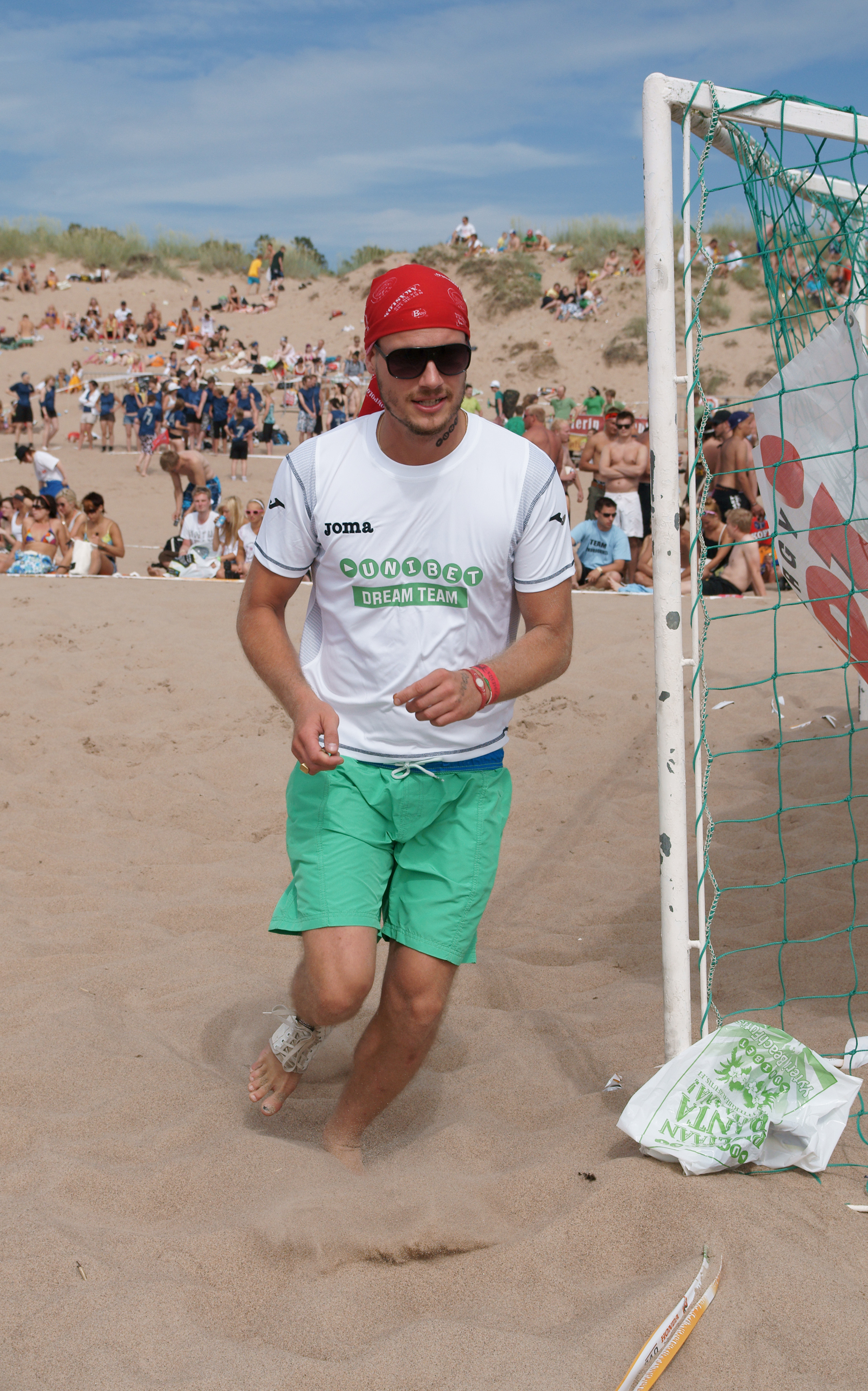 Kim Herold, Finnish model and singer-songwriter, playing beach soccer in Yyteri beachfutis.